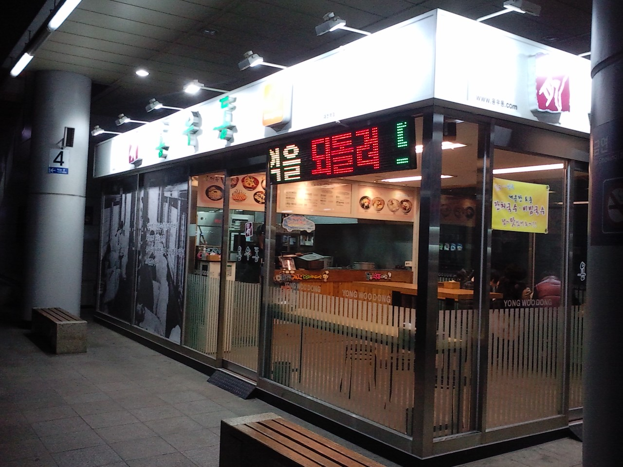 Daejeon stn GarakGuksu